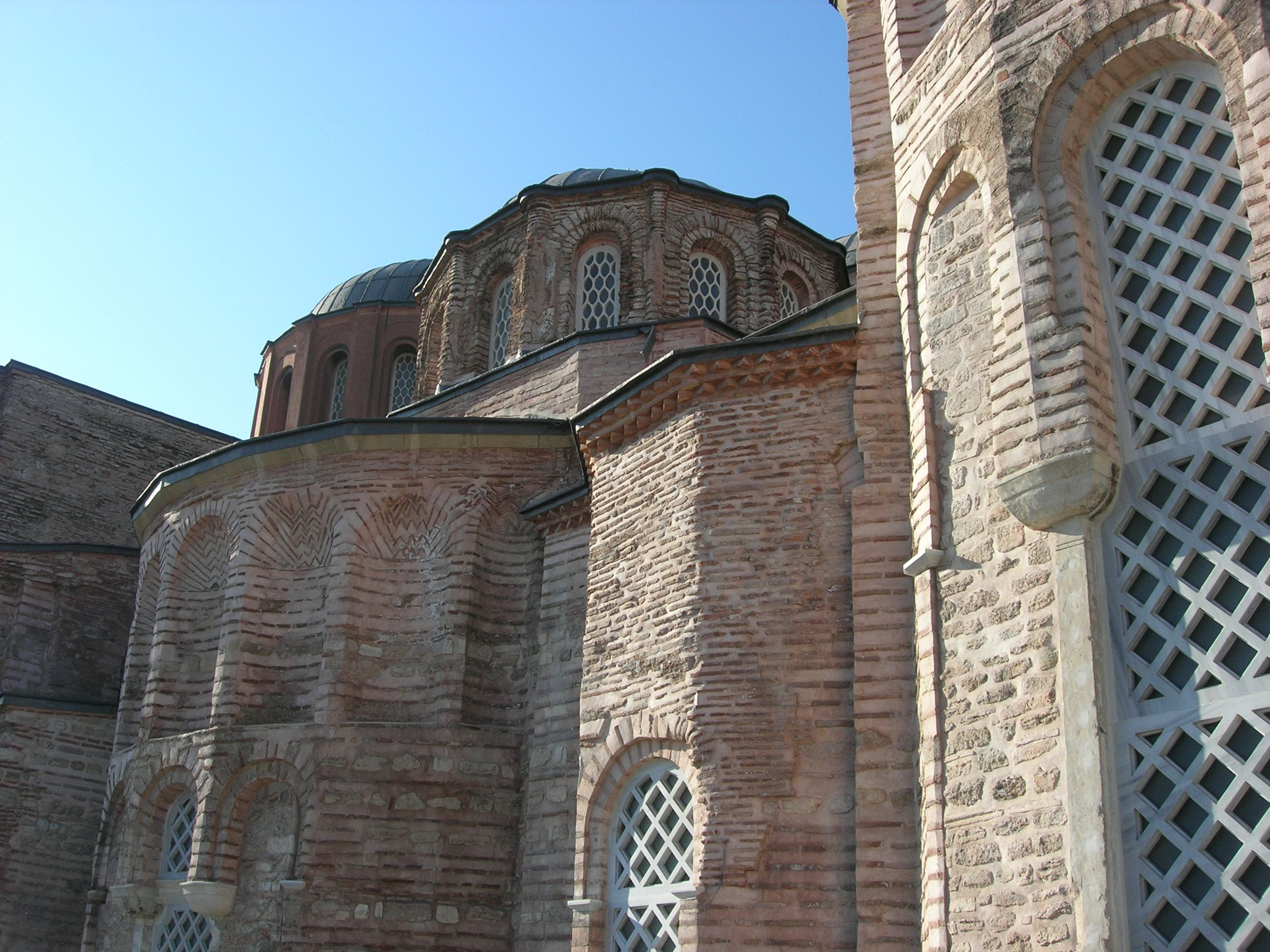 Particular of the former Church of the Pantokrator( today mosque of Zeyrek) in Istanbul